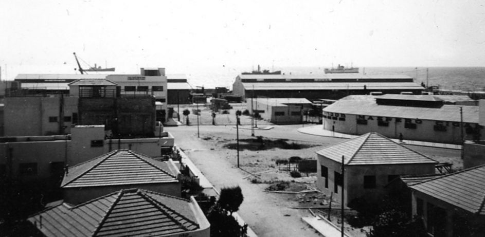 Herbert Plumer Square at Tel Aviv port, 1939.